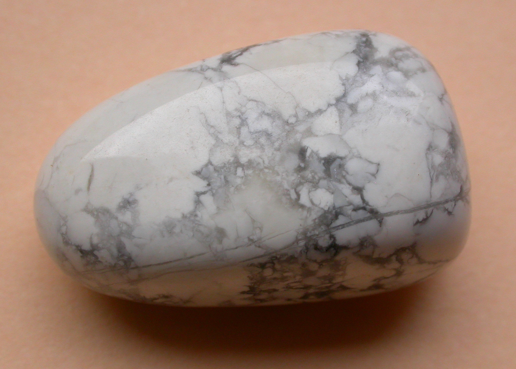 Howlite - tumble polished stone